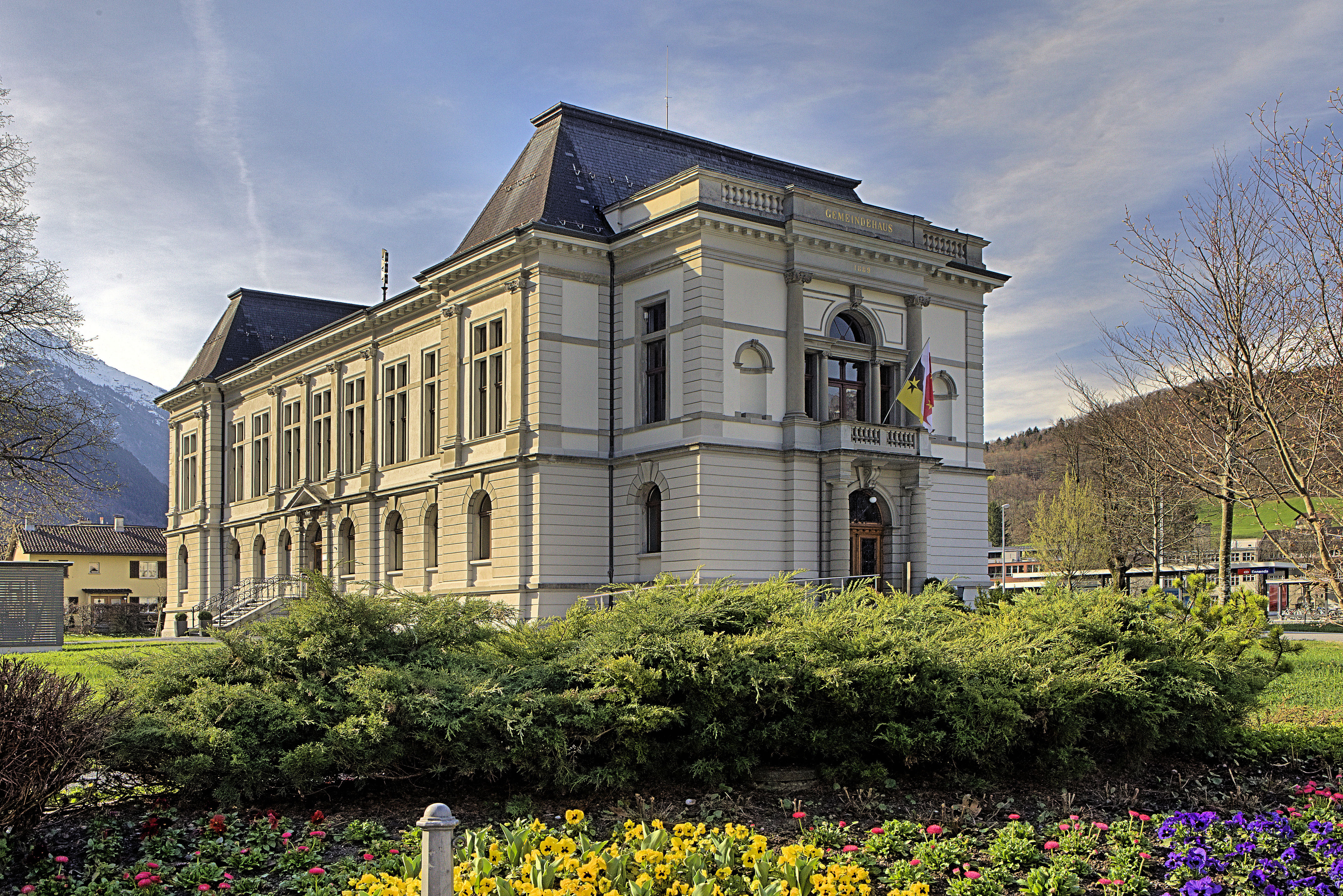 Photo Credits: Hans Bühler, Netstal